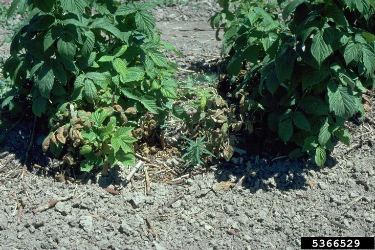 Raspberry plants showing symptoms of Phytophthora root and crown rot.